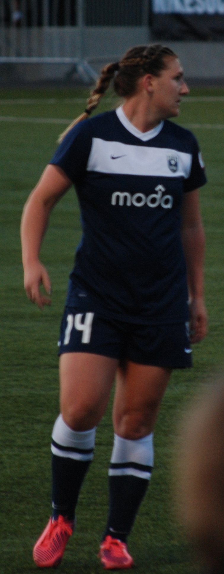 Kristina Larsen in a match against FC Kansas City, May 4, 2013